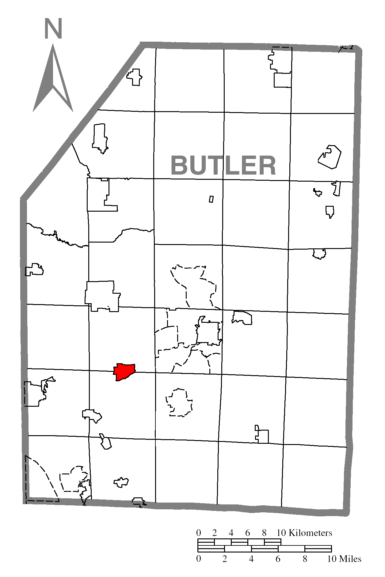 A map of Butler County showing Connoquenessing, Pennsylvania (alternate) highlighted on the map.